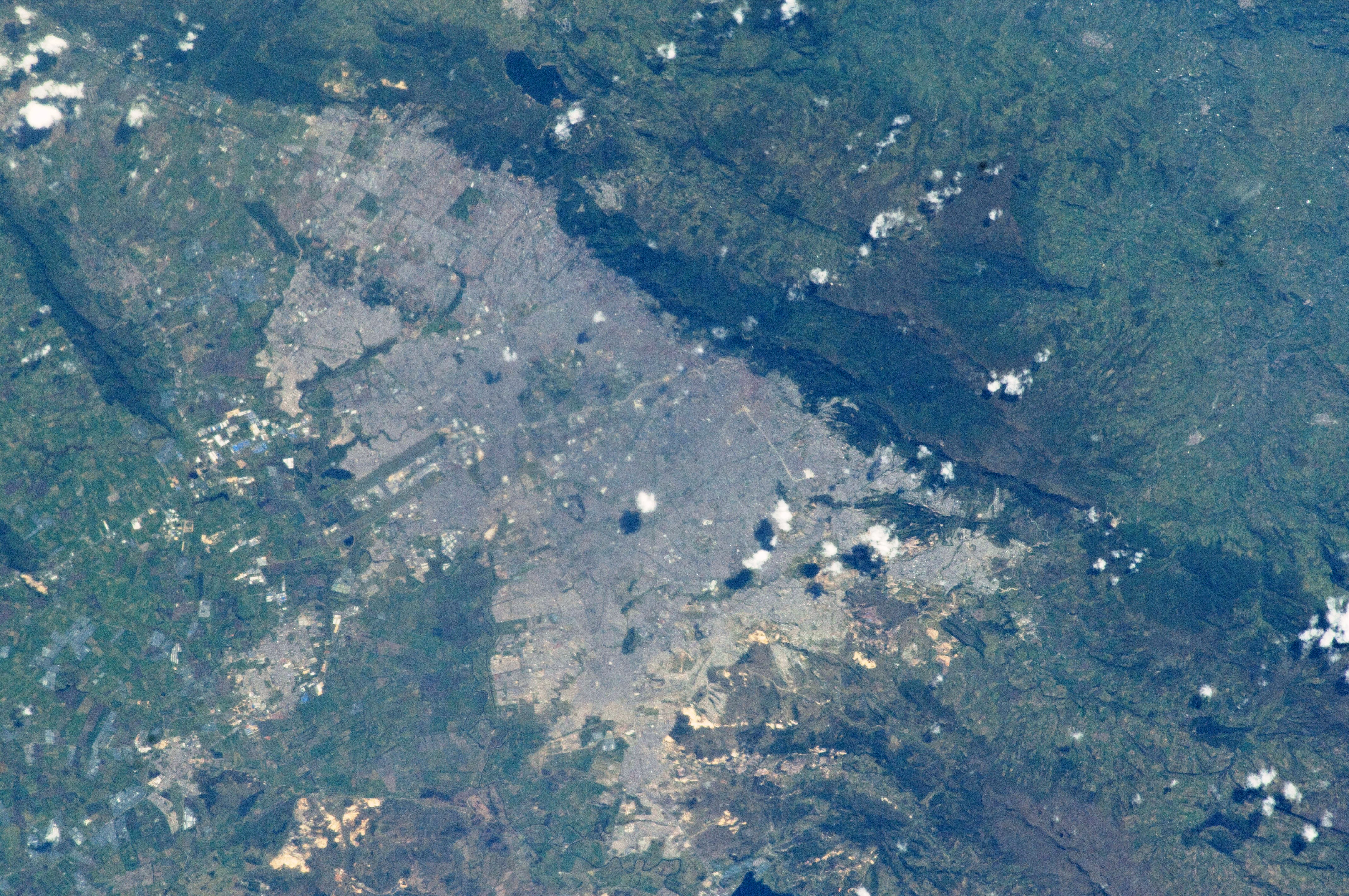 Astronaut Photo of Bogotá, Colombia taken from the International Space Station (ISS) during Expedition 28 on September 9, 2011.